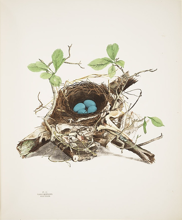 Plate two of "Illustrations of the Nests and Eggs of Birds of Ohio," Wood Thrush nest with eggs.